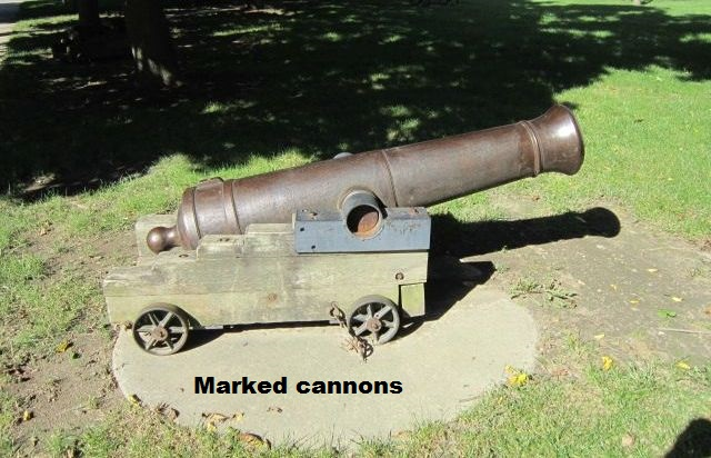 There are two marked cannons from the Columbia Foundry 1834